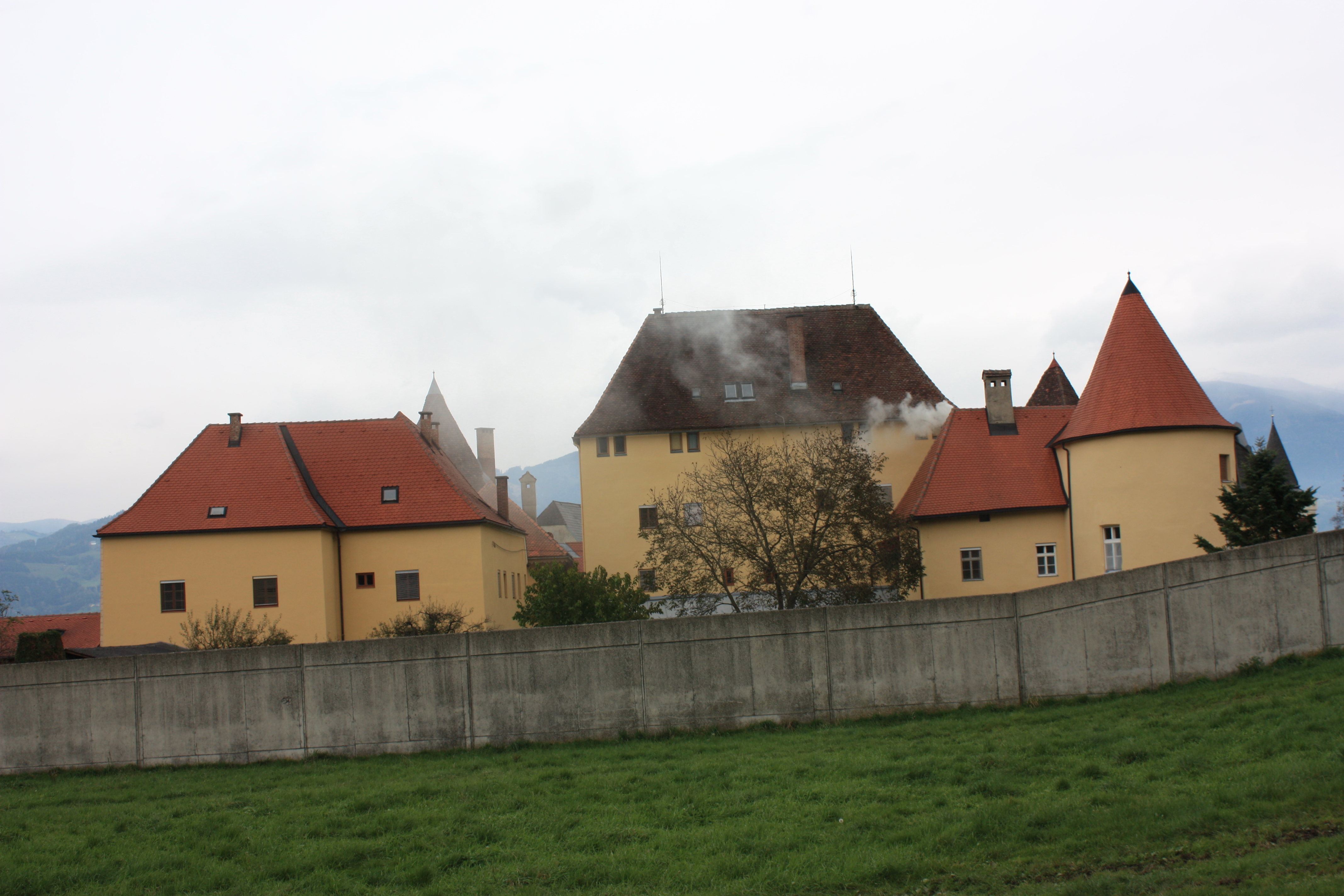 Himmelau castle -Carmelites-cloister Locality: Sankt Michael im Lavanttal Community:Wolfsberg